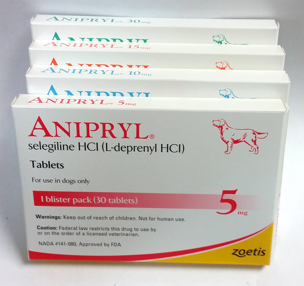 Packs of seligiline, sold under the brand name "Anipryl" in veterinary medicine